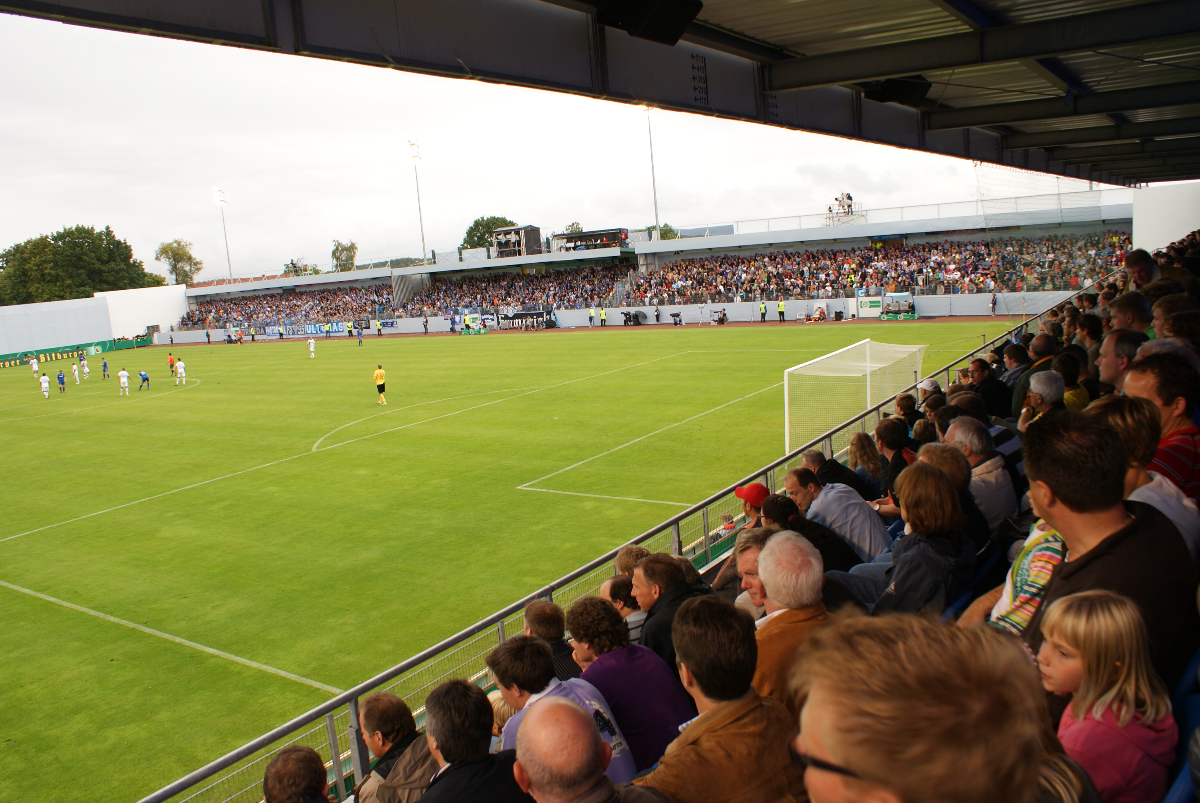 DFB-Cup SF Lotte versus VFL Bochum